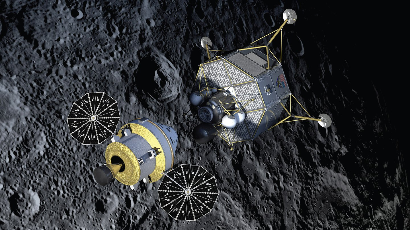 With the crew inside, the Altair lunar lander undocks from the Orion crew exploration vehicle and begins its descent to the lunar surface.